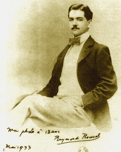 Raymond Roussel (1877-1933), 18 years old